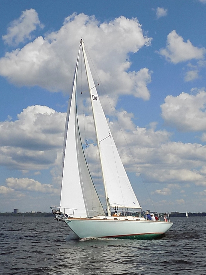 A Frigate 36 sailboat named Fiddler's Green II.